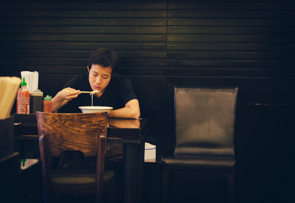 Person who is eating alone in restaurant